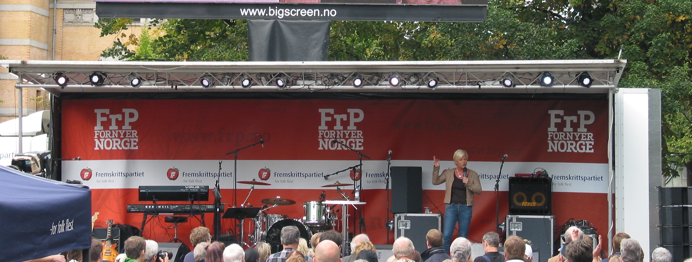 Siv Jensen campaigning in Spikersuppa, Oslo ahead of the 2009 Norwegian election.